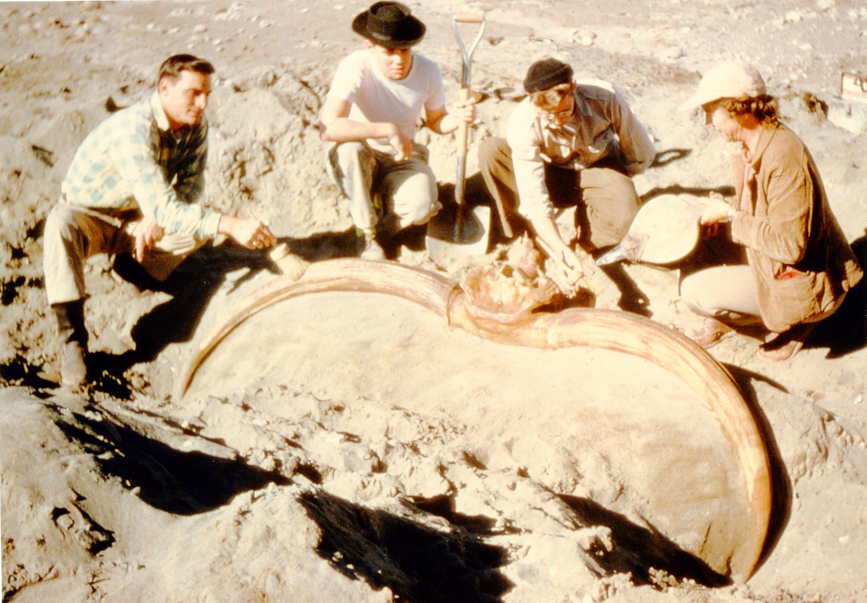 Marie Hopkins digs Bison